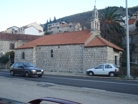 St. Stephen Church , Sustjepan